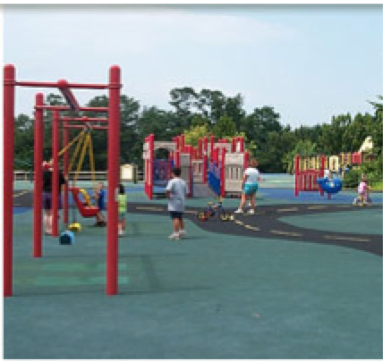 Playing equipment at Hadley's Park (Potomac, Maryland)